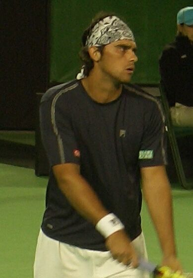 Mark Philippoussis in his first-round match of the 2006 Australian Open. He lost.